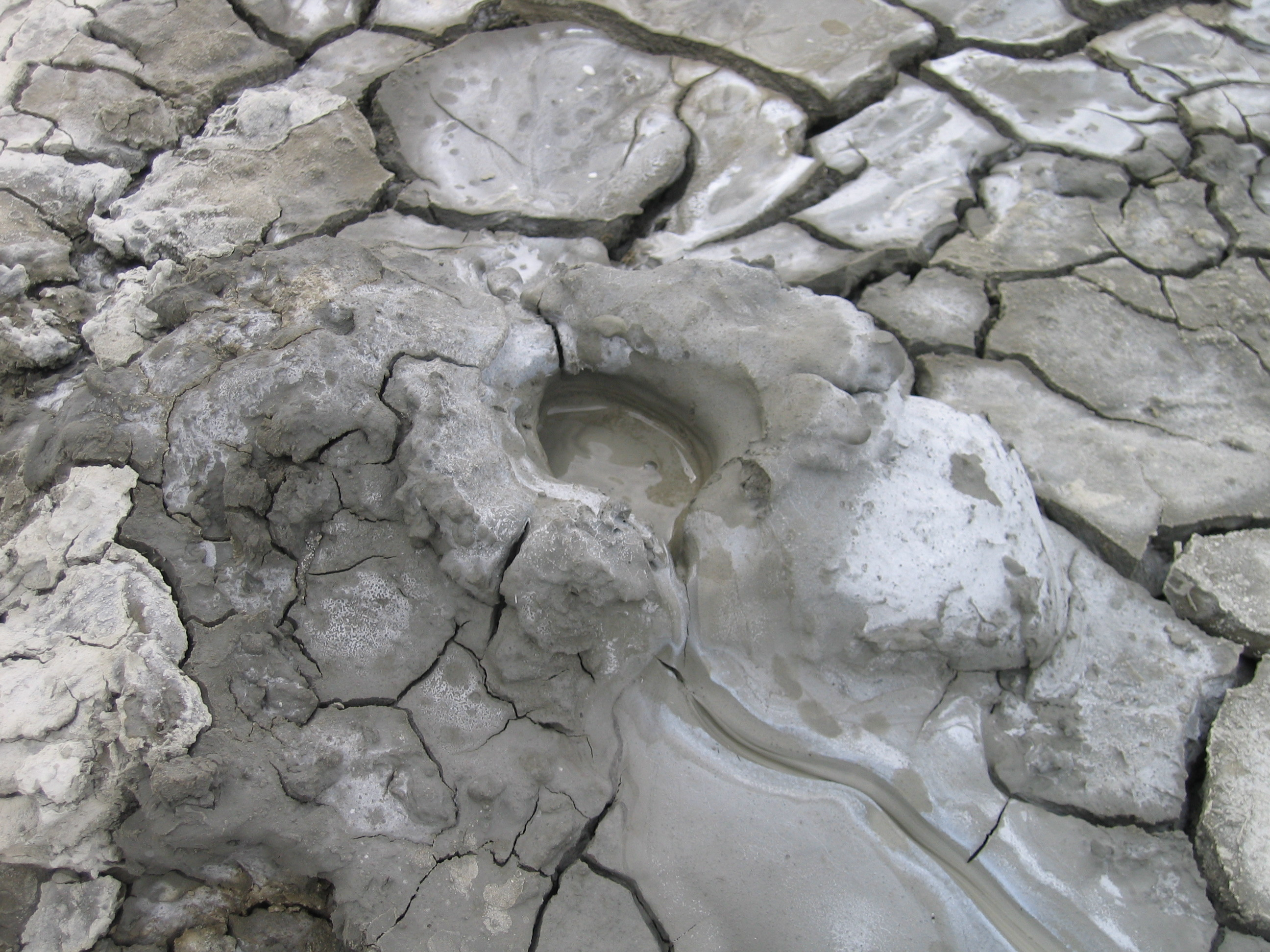 Macalube of Aragona, Sicily